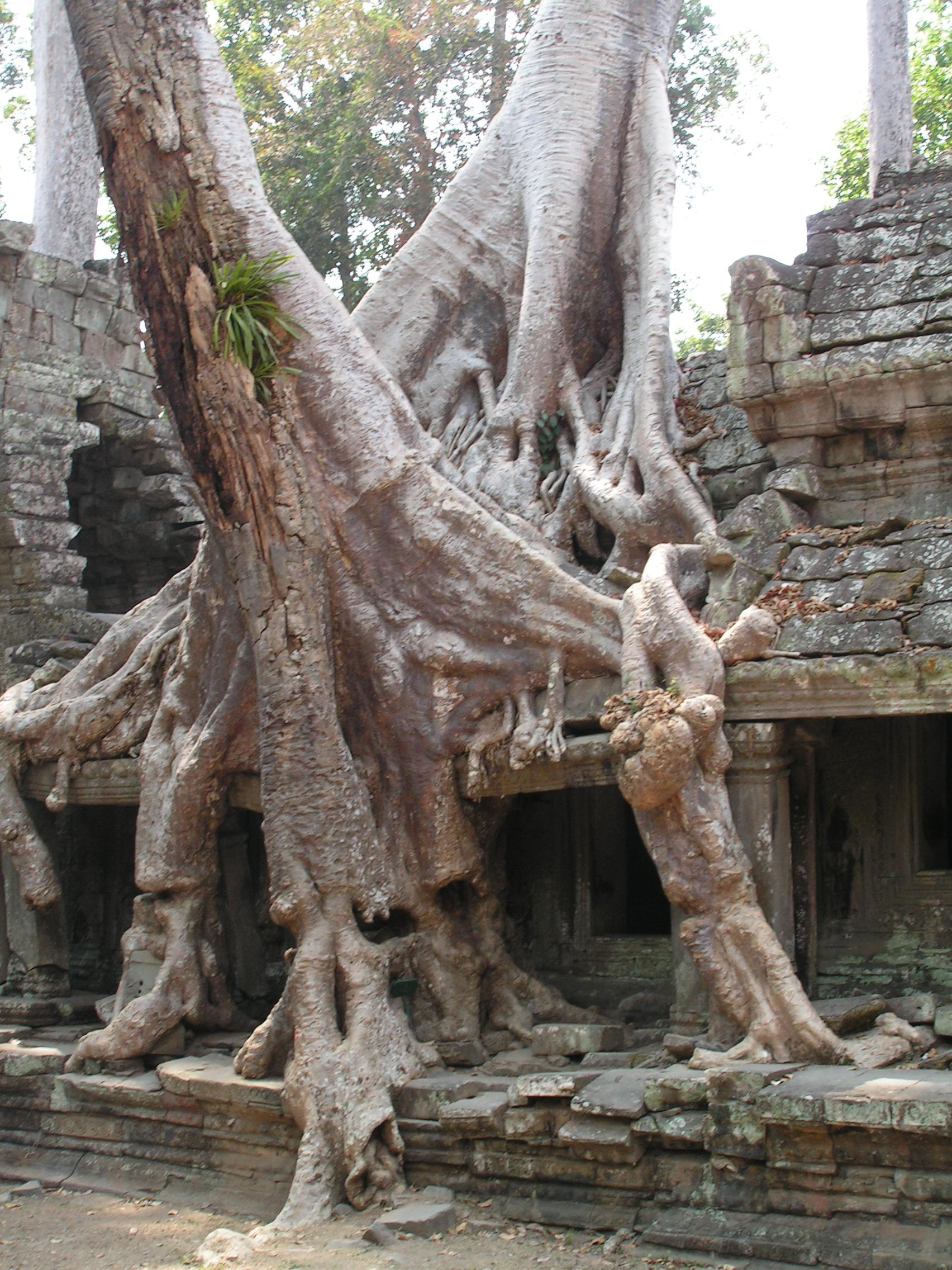 Tree intertwining with Preah Khan temple